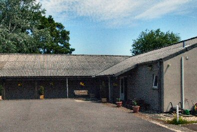 An outside photo of the farm taken by me in June 2006